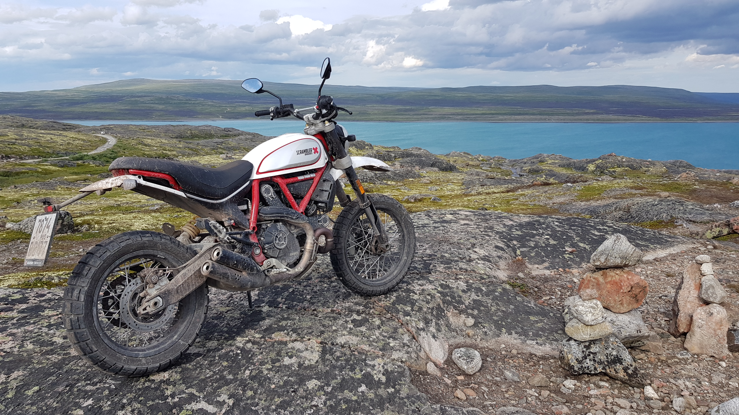 Motorcycle ride around the peninsula as part of an expedition in August 2019